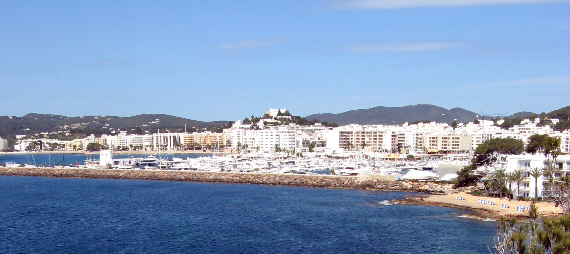 Port and town of Santa Eulària des Riu from the north east